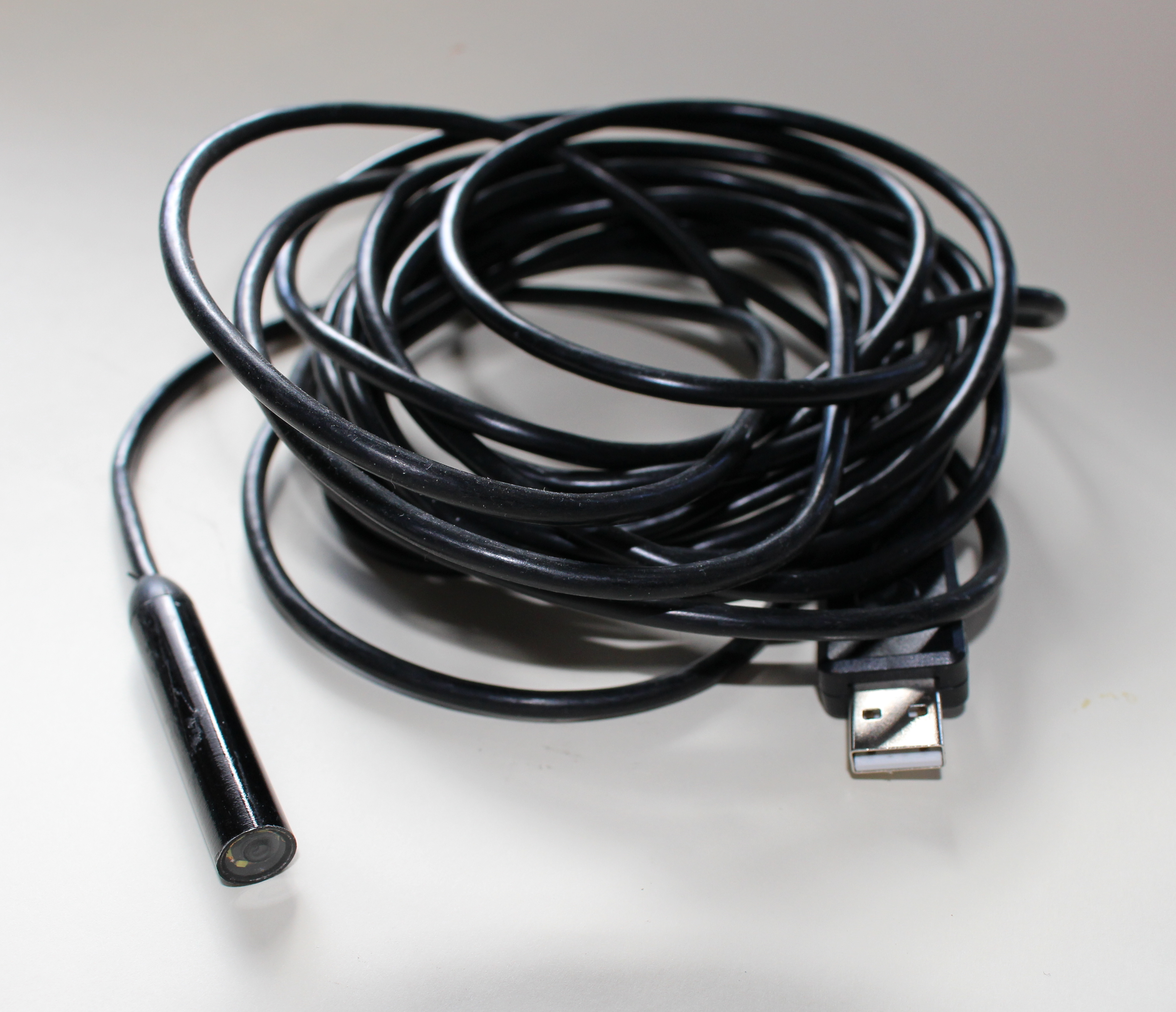 USB endoscope.